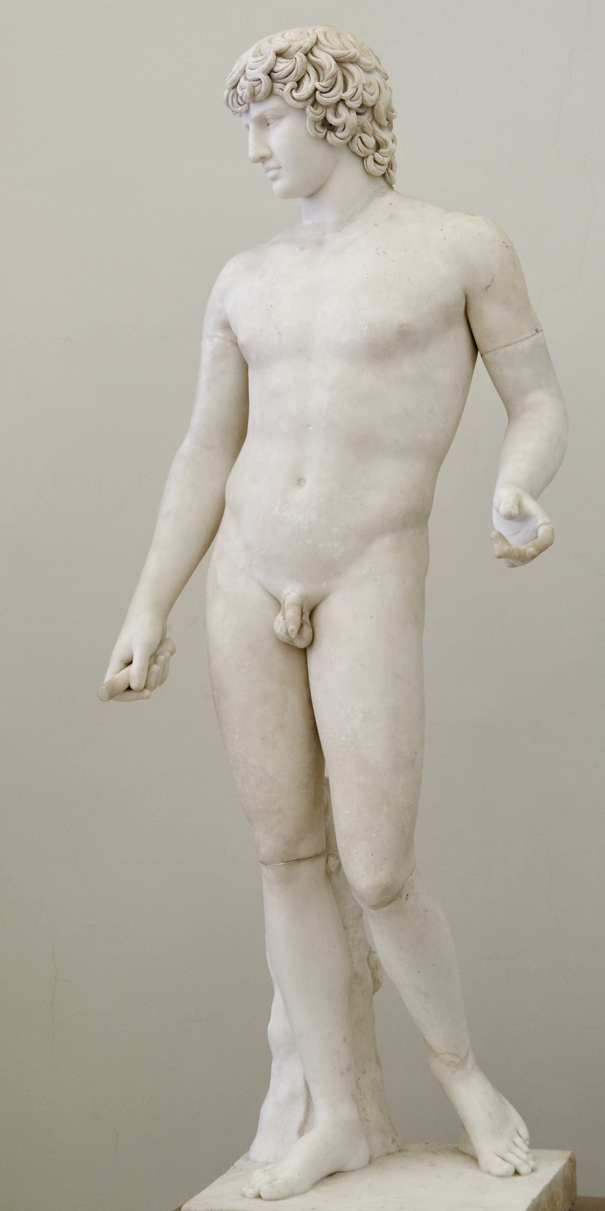 Statue of Antinous. Reelaboration of the 2nd century AD after a Greek original of the Late Classical period.